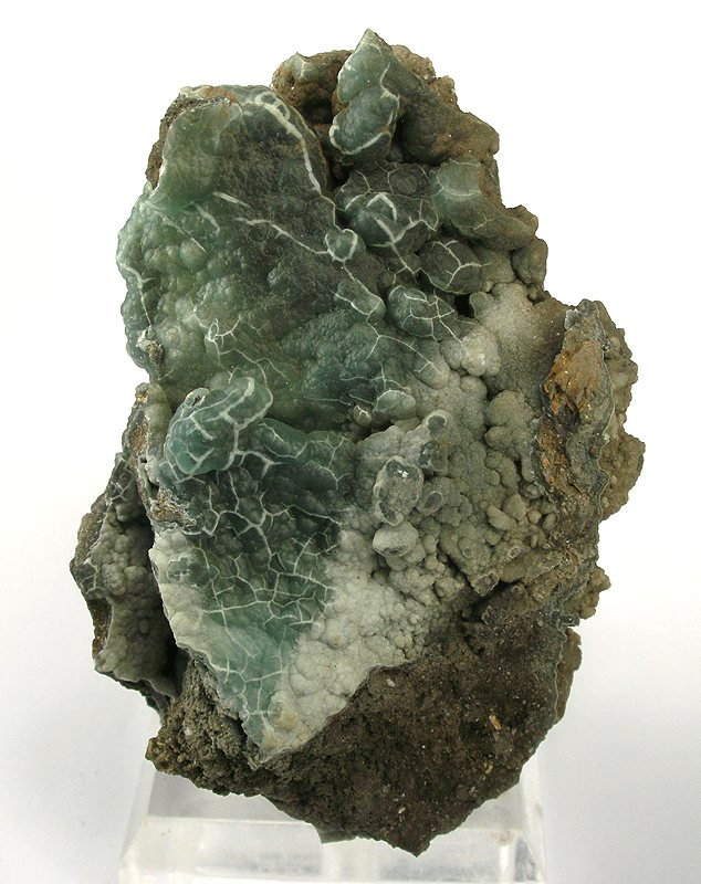 Gibbsite Locality: Xianghualing Mine (Hsianghualing Mine), Xianghualing Sn-polymetallic ore field, Linwu County, Chenzhou Prefecture, Hunan Province, China (Locality at ) Size: small cabinet, 8.8 x 5.5 x 4.8 cm Gibbsite A thin crust of lustrous and translucent, green, gibbsite, in botryoidal aggregates to .7 cm across, emplaced on matrix.